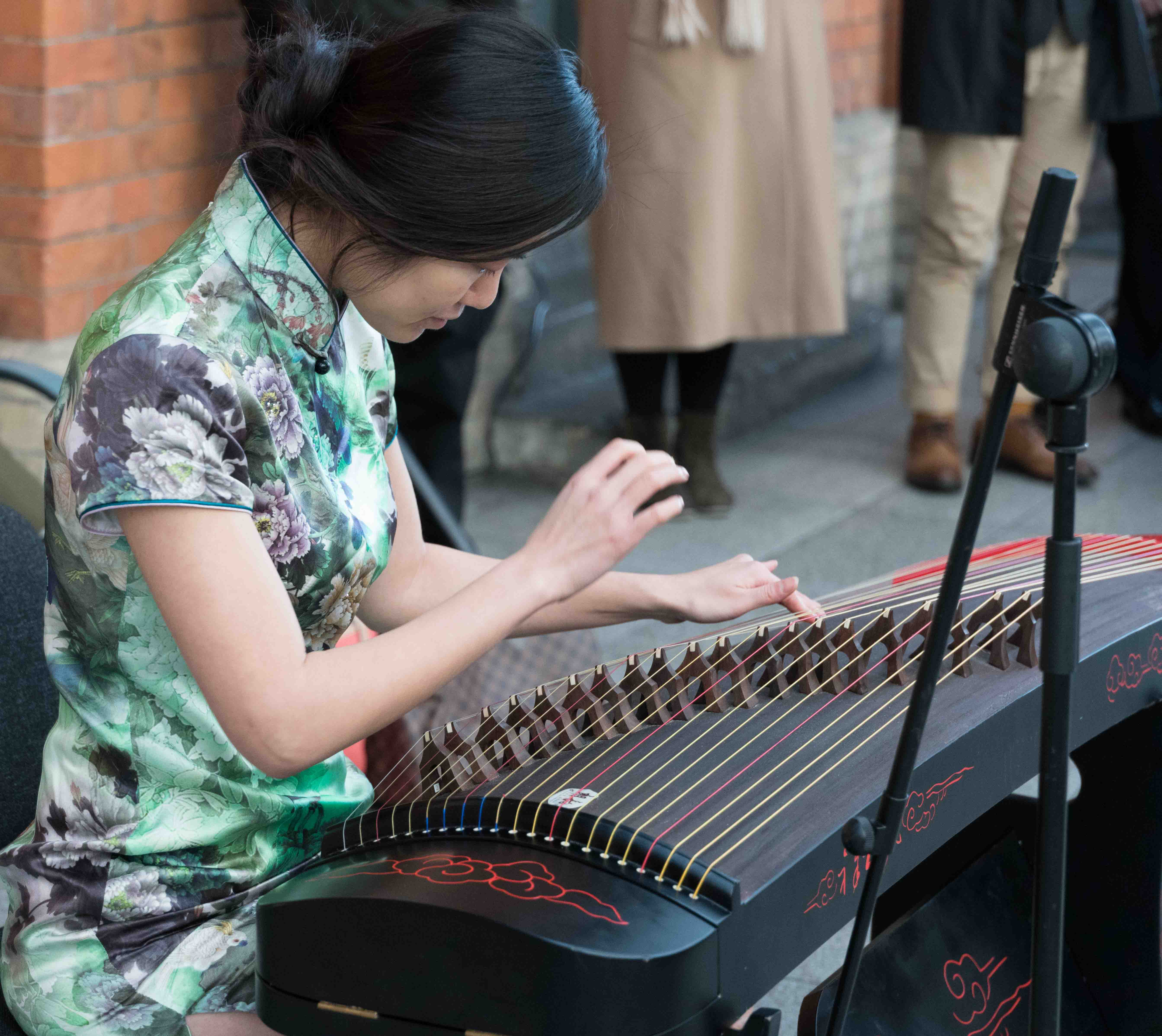 This morning I was on my way to Howth when a nice Chinese lady, thinking that I was a press photographer, invited me to photograph the ‘Official Chinese Delegation’ so I took the opportunity even though I did not have an ideal lens [my fall-back excuse for not being a good portrait photographer]. A delegation from the Shanghai Metro were in Connolly Station this morning as a two-week-long tribute to Chinese poetry was launched. The China Cheongsam Association of Ireland performed traditional Chinese music and dance on platform four from 11am, and there was some Chinese cuisine samples for passengers who got there early as i was planning to have lunch in Howth I did not try the food. Last year Chinese commuters in the city of Shanghai were treated to the poetry of W.B. Yeats as they travelled on board the local Metro service and as they passed through various stations as part of the Yeats 2015 celebrations. This year CIE will continue the relationship by displaying famous Chinese poems on board the DART and at Stations during February to mark Chinese New Year. The poems will be displayed in Chinese and English. For more information relating to the Chinese New Year here in Ireland please visit